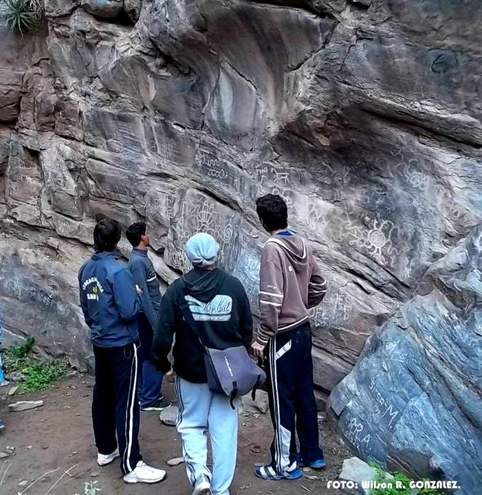 Petroglyphs in Cerro Pie de Palo, Caucete Department, Argentina.